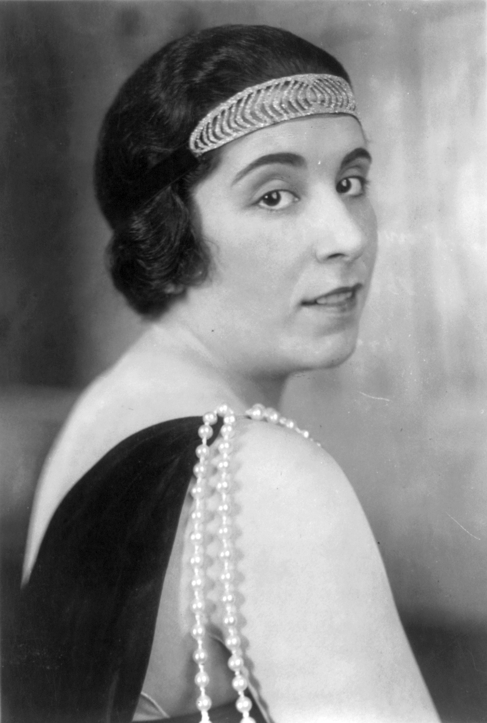 Lucrezia Bori, head-and-shoulders portrait, facing right